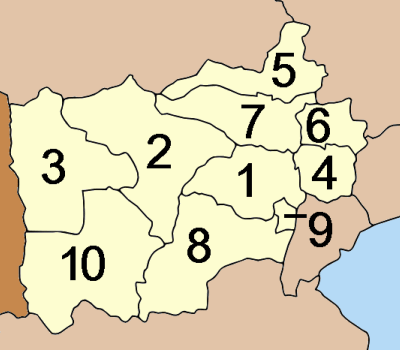 Map of Ratchaburi province, Thailand, showing the Amphoe numbered. Mueang Ratchaburi Chom Bueng Suan Phueng Damnoen Saduak Ban Pong Bang Phae Photharam Pak Tho Wat Phleng Ban Kha